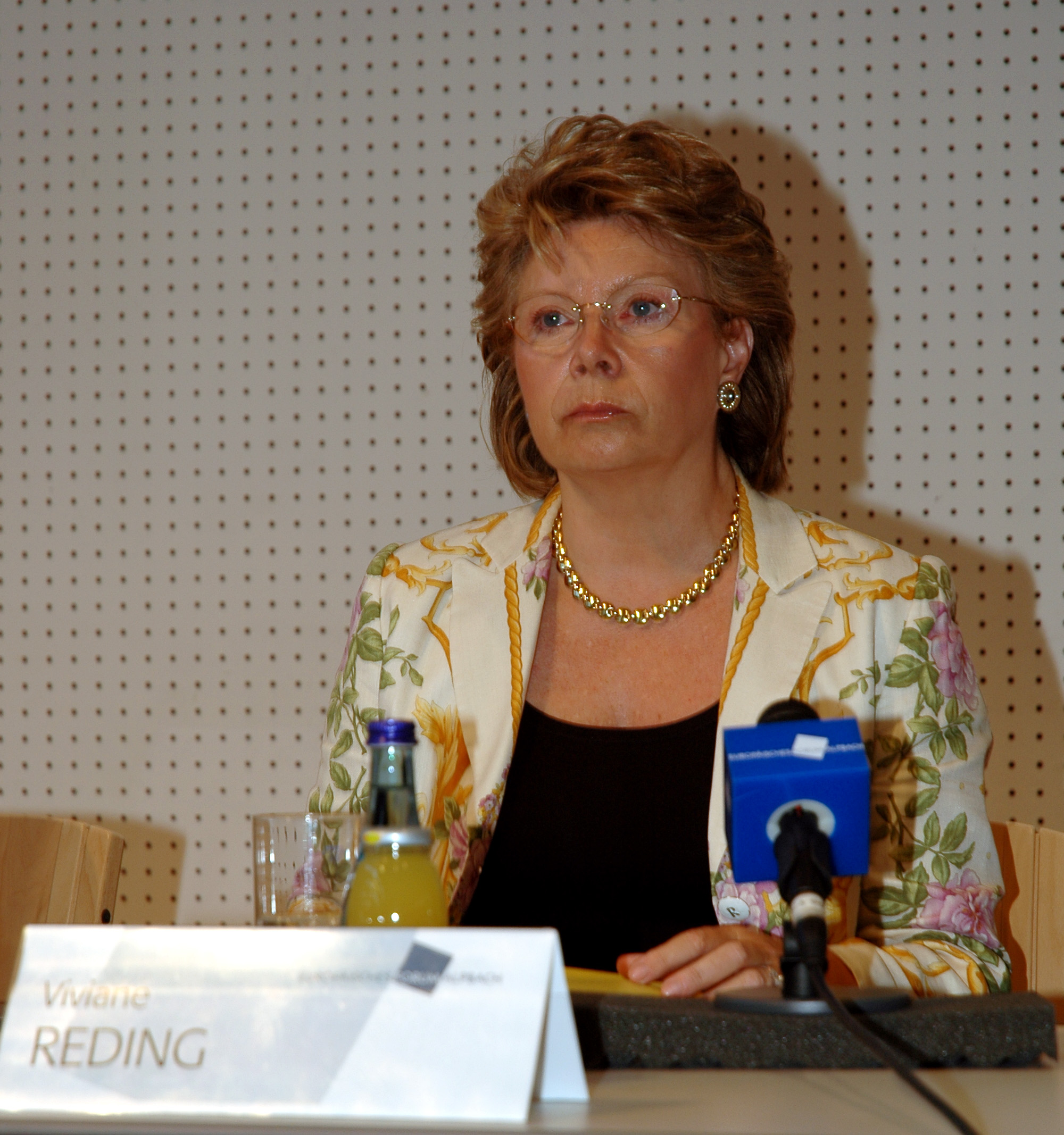 Viviane Reding attending a discussion at the European Forum Alpbach, Austria, in September 2005. Photographer: DerHuti